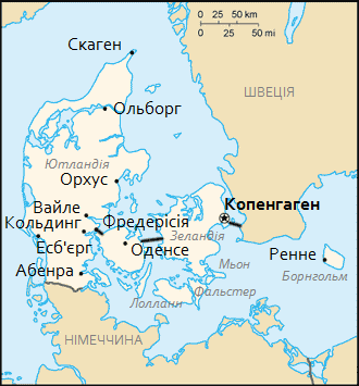 Мапа Данії українською